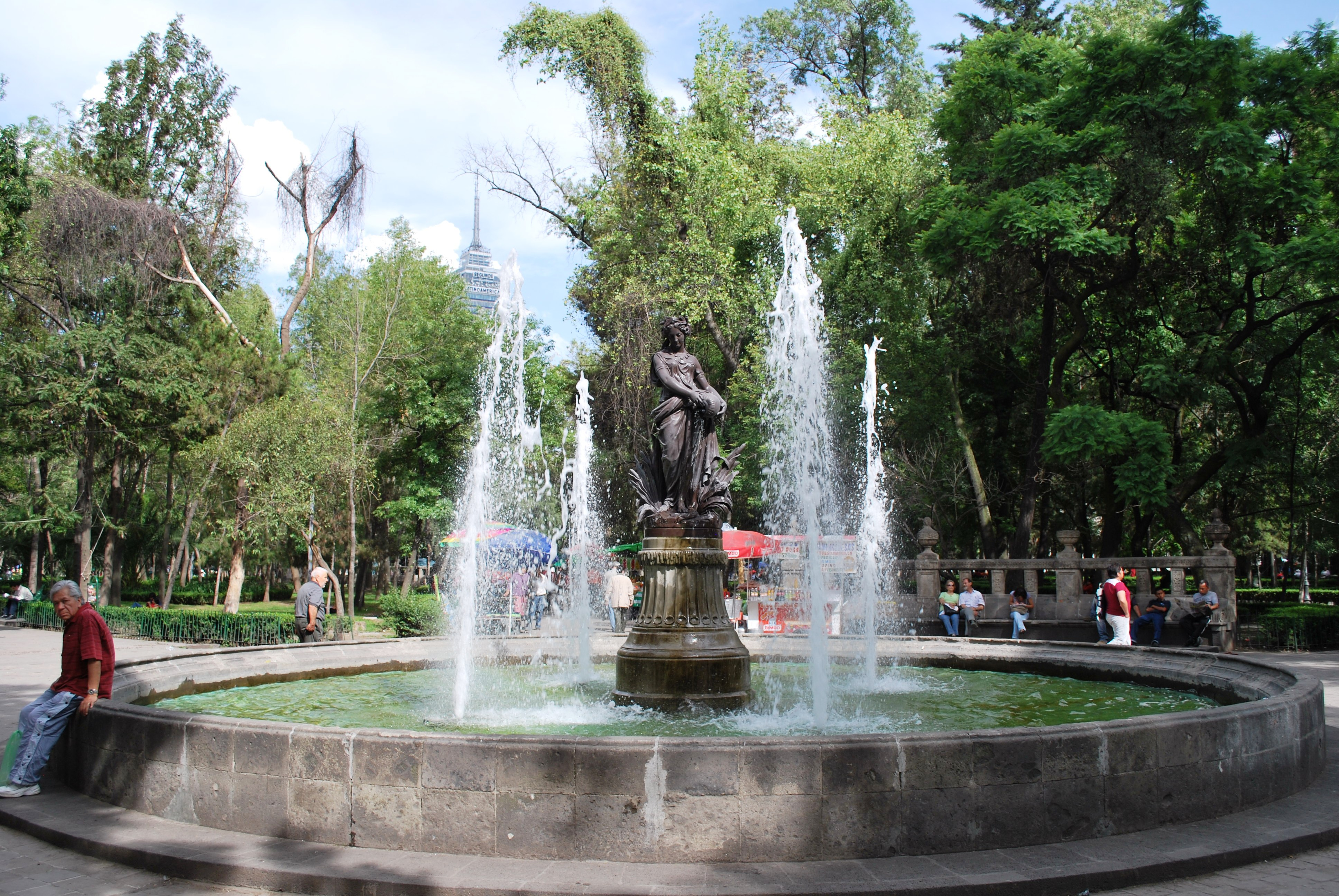 Fountain with sculpture of woman with jar in the Alameda Central in Mexico City